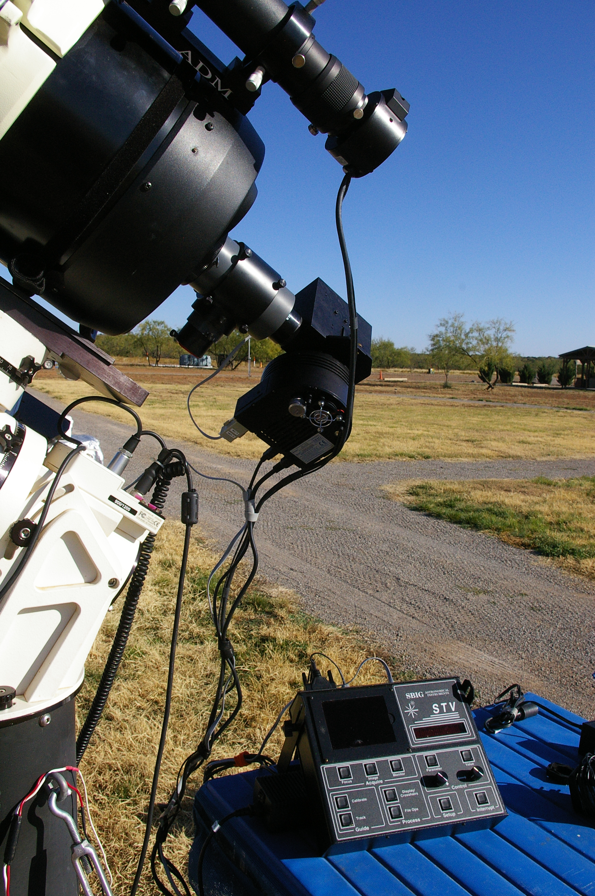 In this photo I've installed the SBIG STV autoguider, replacing the finderscope eyepiece with the camera . See mouseover notes on the photo for descriptions.